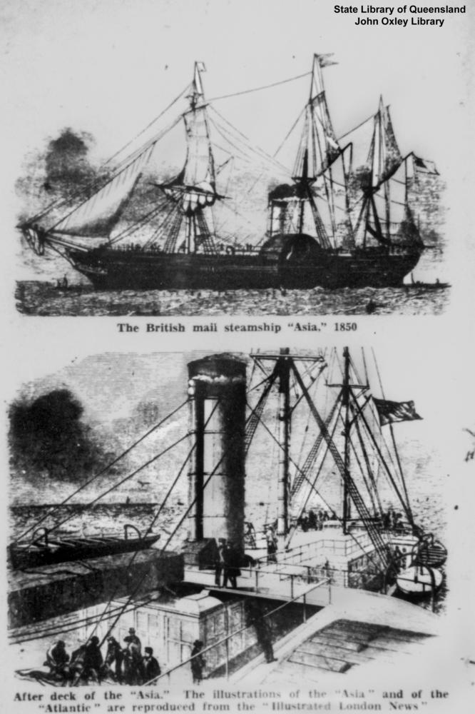 Asia (ship) Two drawn images of the Asia (ship) from the Illustrated London news.